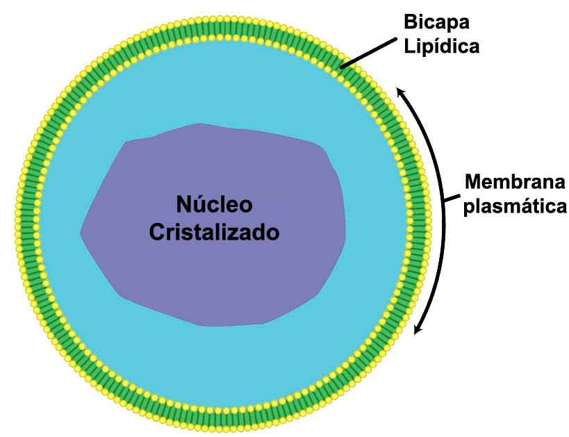 Basic structure of a peroxisome (in spanish)